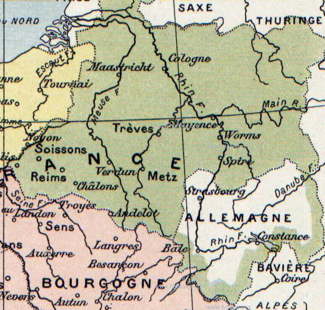 Detail of a map of the Frankish kingdoms by Paul Vidal de La Blache, Atlas général d'histoire et de géographie (1894). It shows Austrasia, the northern part of the kingdom of Childebert II in 587 AD.